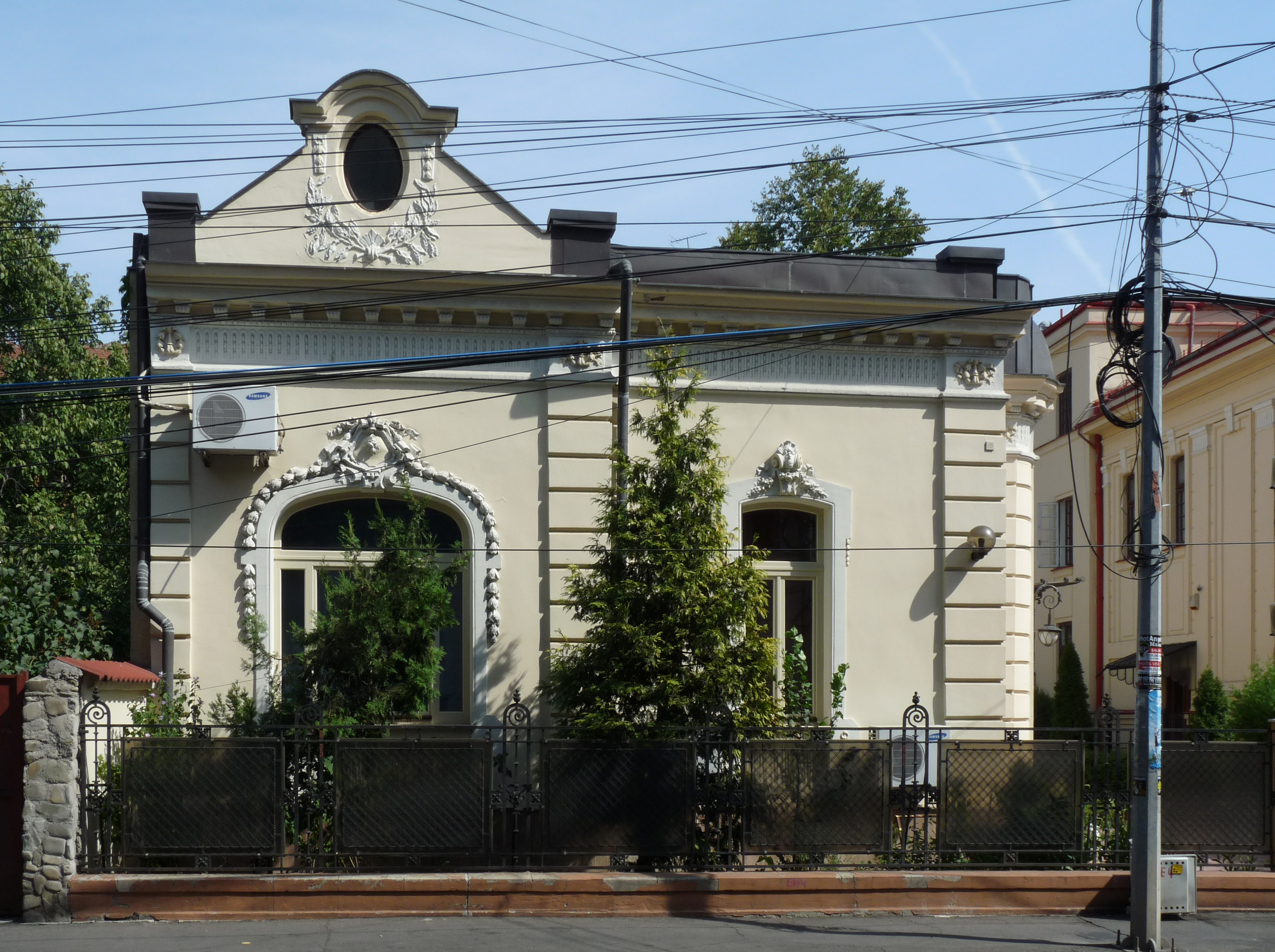 Historical building in Bucharest, Romania, on Polonă street 30